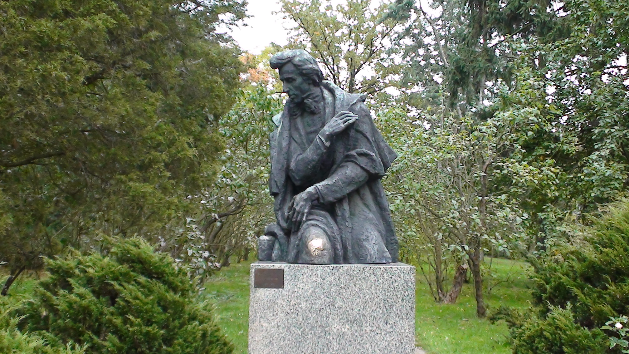 Monument of Frédéric Chopin in Żelazowa Wola, sculptored by Józef Gosławski. Designed in 1955, unveiled in 1969.